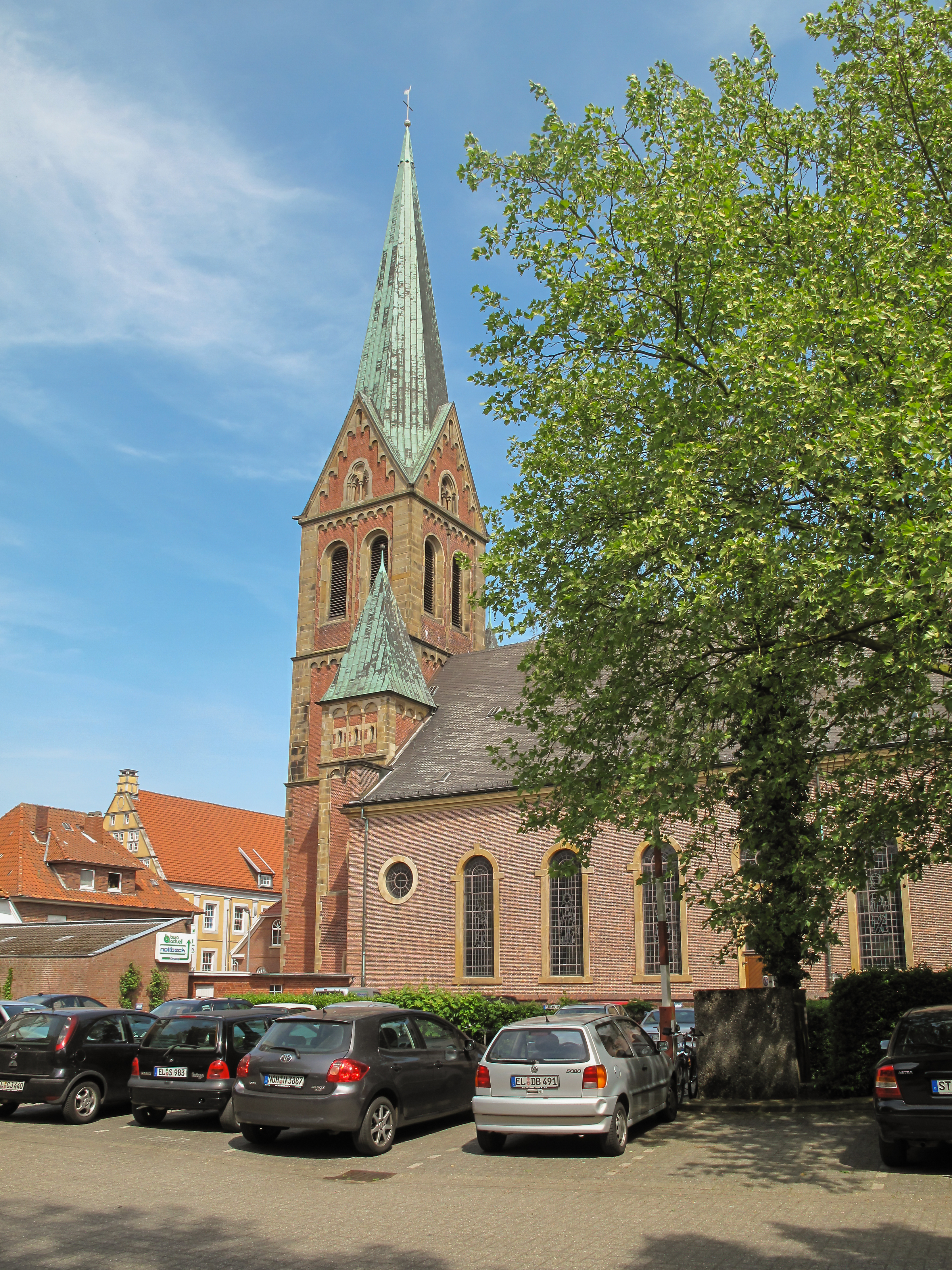 Lingen, church: die Sankt Bonifatius Kirche